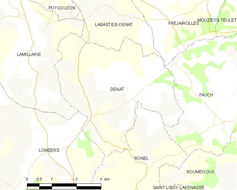 Map of French municipality Dénat